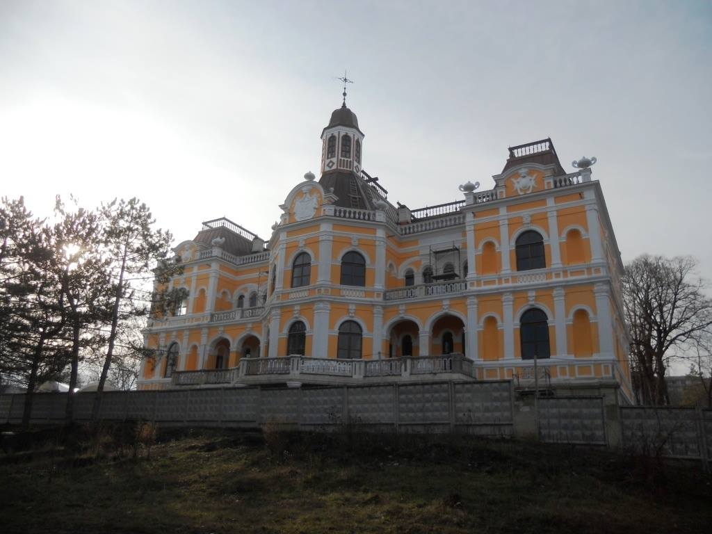 Doors Open Day at the mansion of Manuc Bei, located in Hîncești, Republic of Moldova